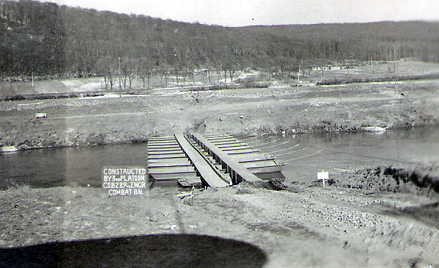 Infantry support bridge over Saar River erected by 289th Engineer Combat Battalion at Völklingen, Germany, erected between March 18 - 20, 1945